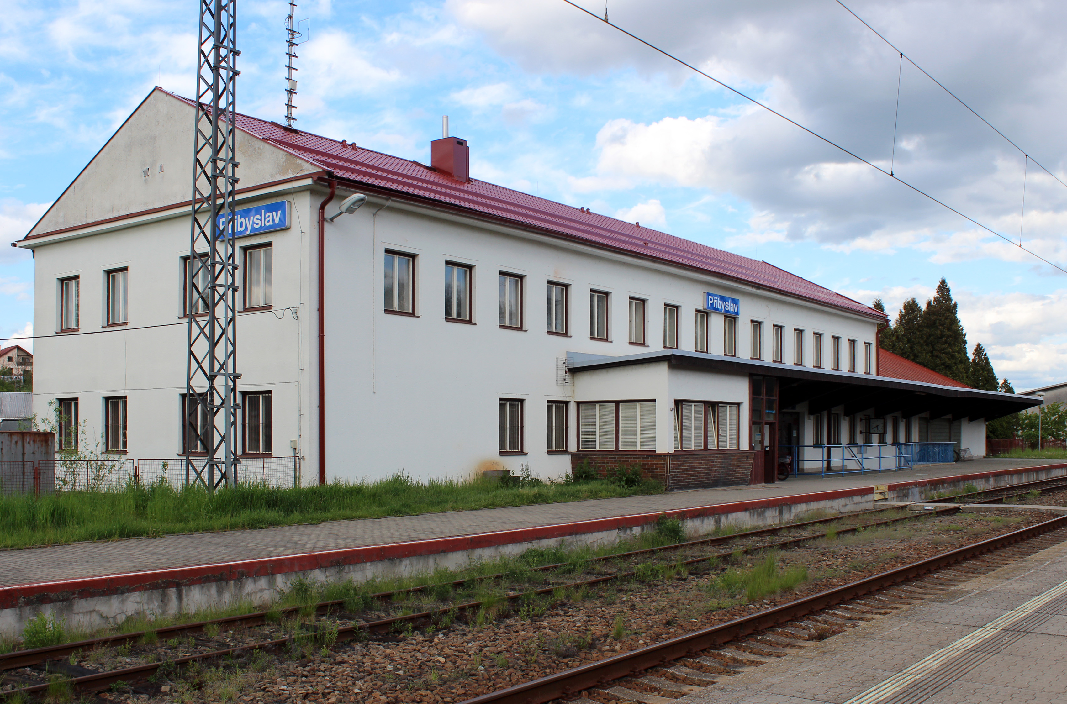 Train station in Přibyslav, Czech Republic